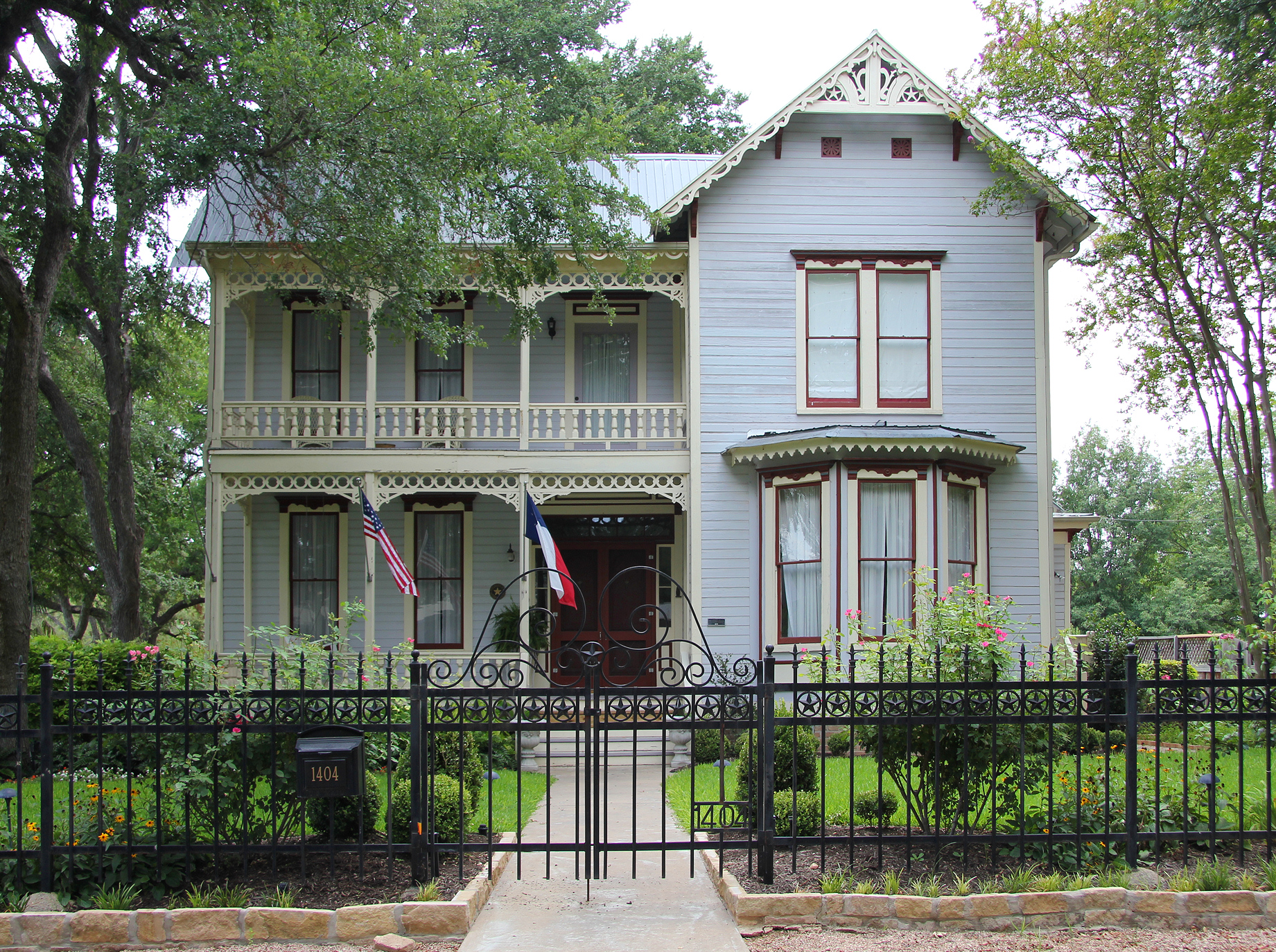 The Allen-Fowler House in Bastrop, Texas, United States. William J. Hancock built this house in 1852 for his family and for boarding students from the nearby Bastrop Academy (later named the Bastrop Military Institute). The house was added to the National Register of Historic Places December 22, 1978 and designated a Recorded Texas Historic Landmark in 2008.